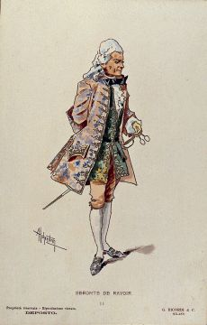 Description: Geronte di Ravoir's costume for Act II of Manon Lescaut for the world premiere performance, Teatro Regio di Torino, 1 February 1893. Artist: Adolf Hohenstein (1854-1928) Provenance: Museo Teatrale alla Scala.